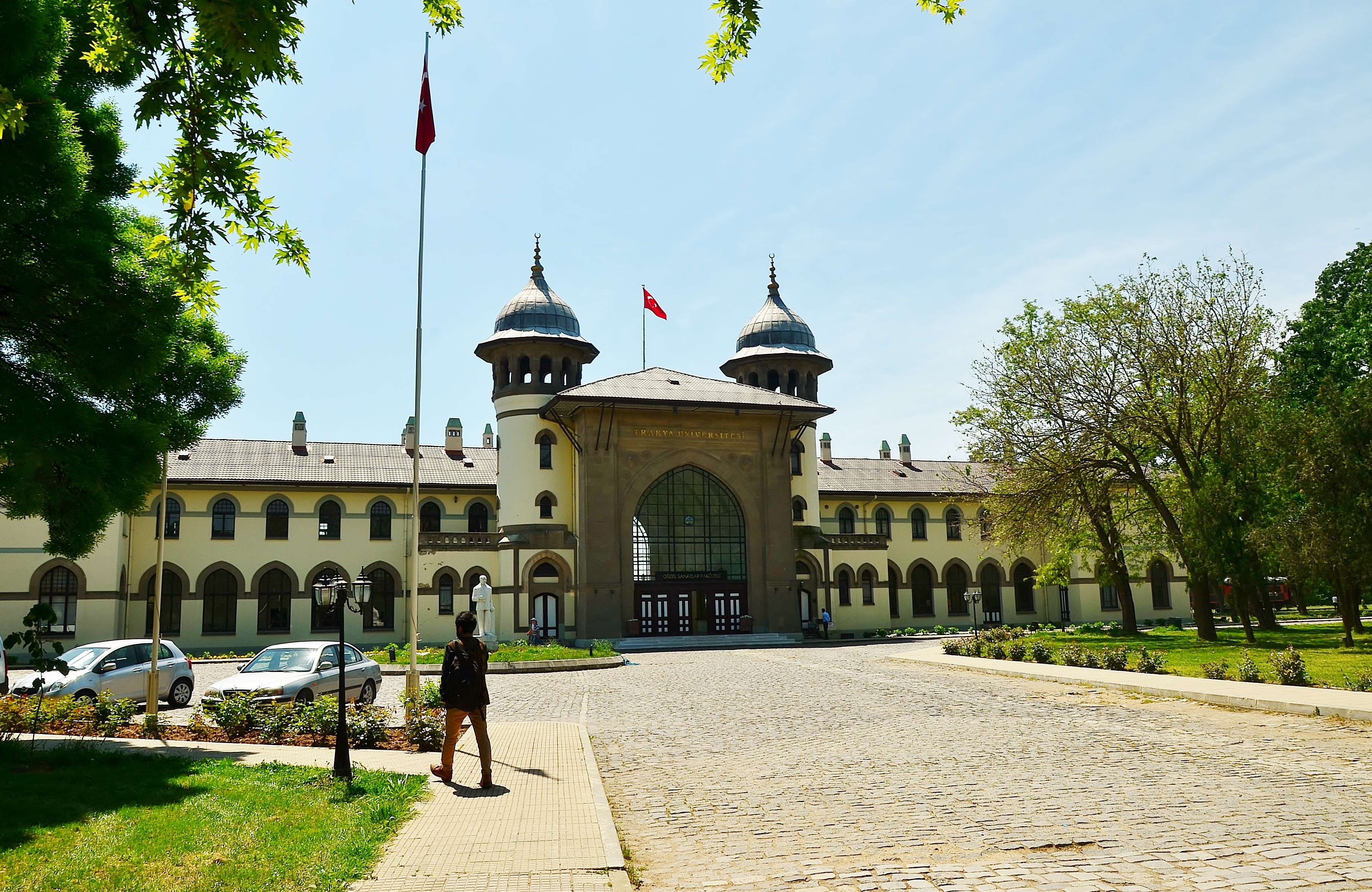 Karaağaç railway station used as the Trakya University's Faculty of Fine Arts in Edirne, Turkey